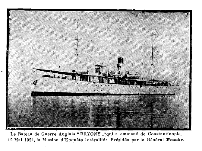 Date: 1921.